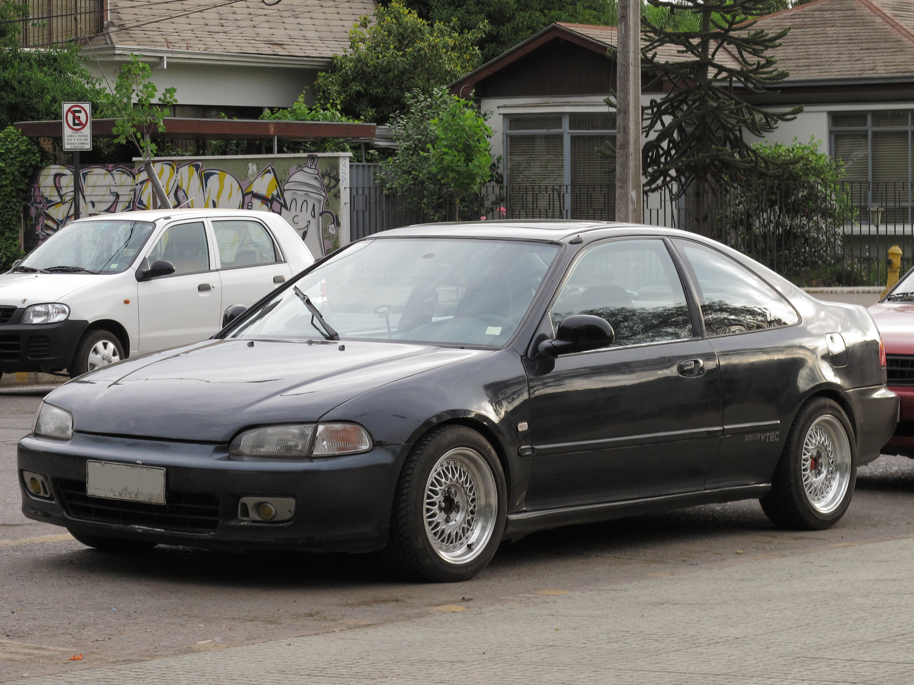 Honda Civic 1.6 EX Coupe 1994